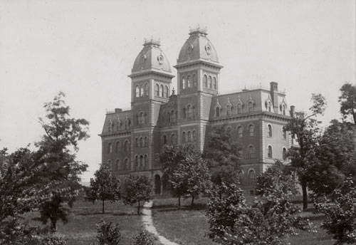 Old Main at Washington & Jefferson College viewed from the corner of Wheeling and College Streets.